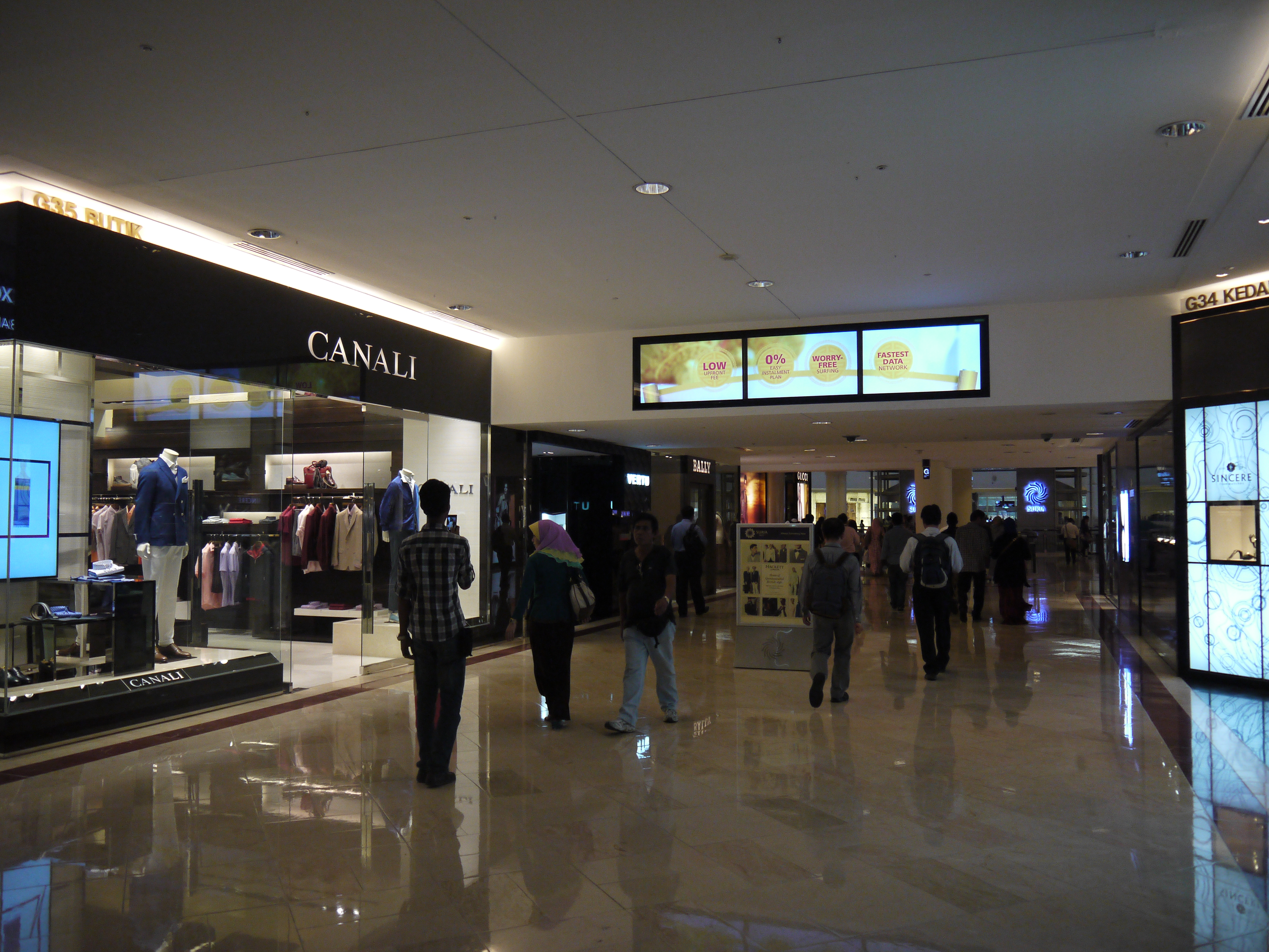 Suria KLCC interior in 2014